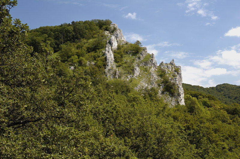 Mount Vápenná (Roštún)